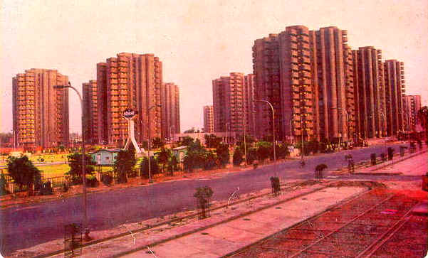 Kaushambi